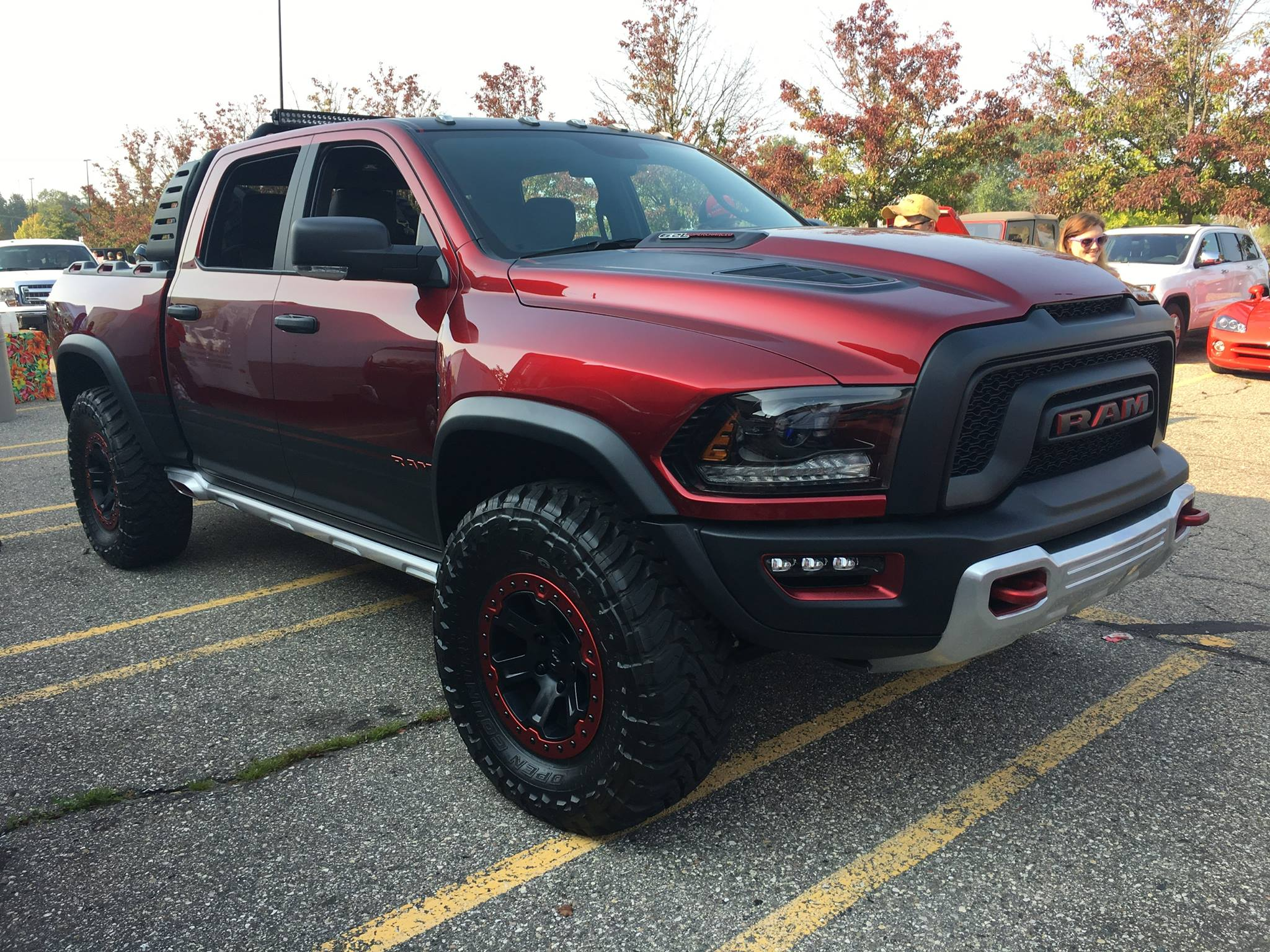 Ram Rebel TRX, Cars and Coffee show, 2017, FCA world headquarters.